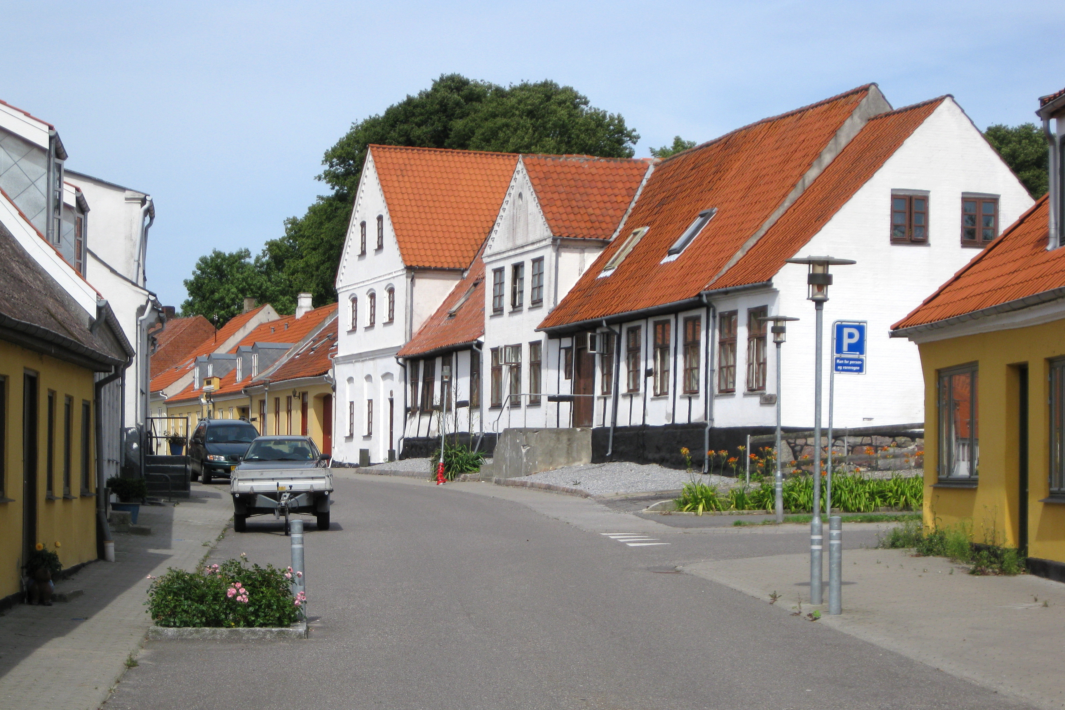 The old street "Møllegade" in the small town "Stubbekøbing". The town is located on the island Falster in east Denmark.